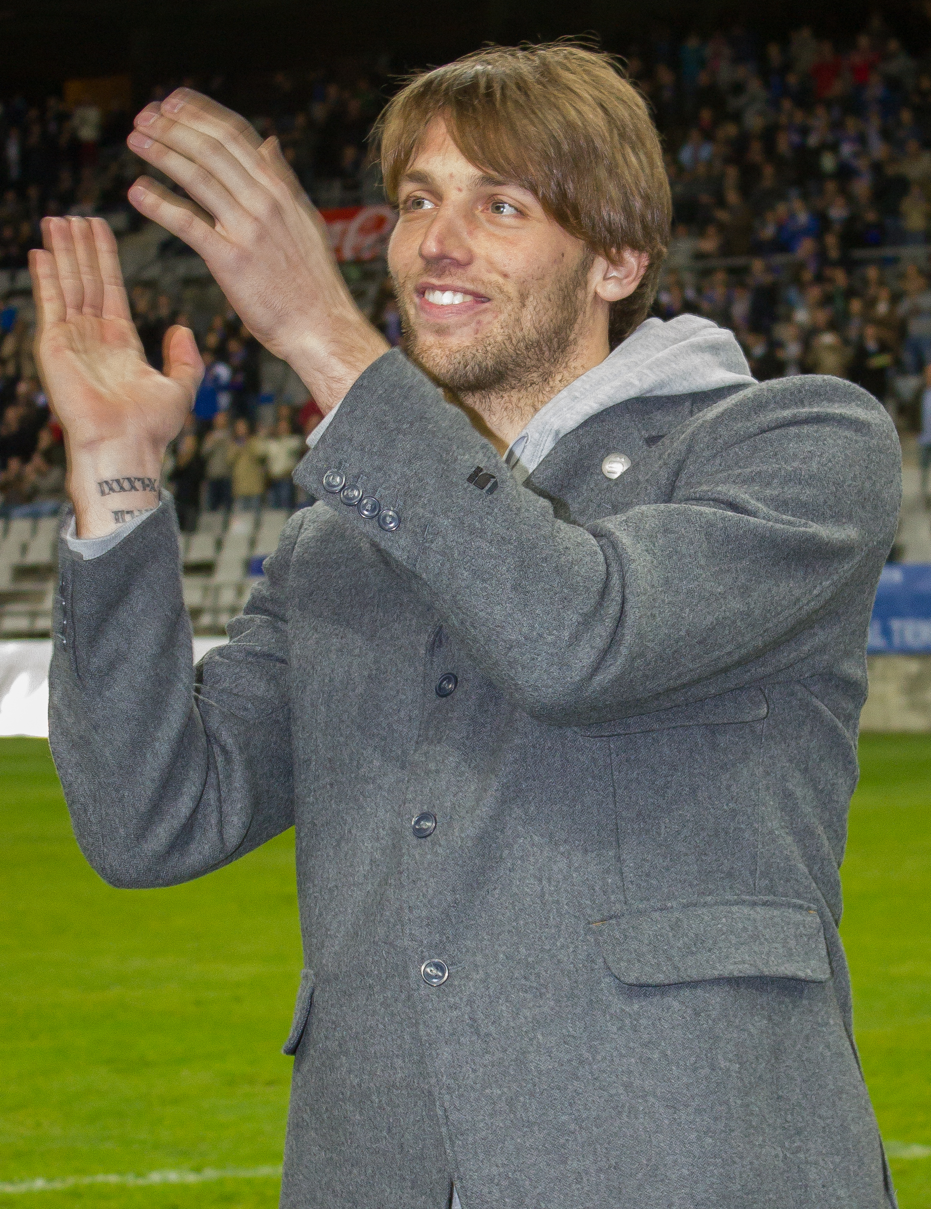 Michu, spanish football player.